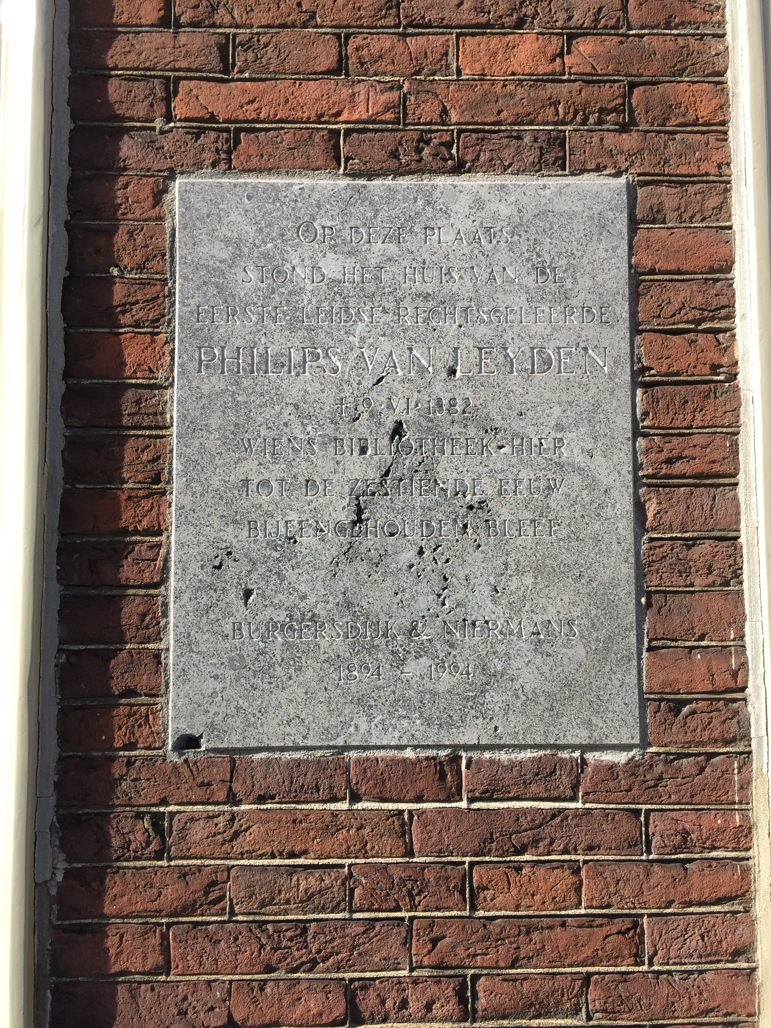 Plaque Philips van Leyden (Leiden, the Netherlands)